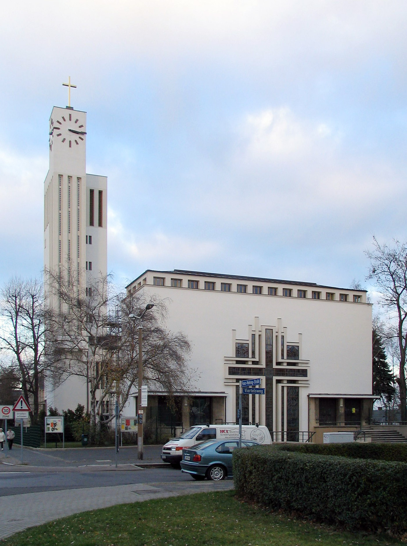 Church of Reconciliation in Leipzig-Gohlis